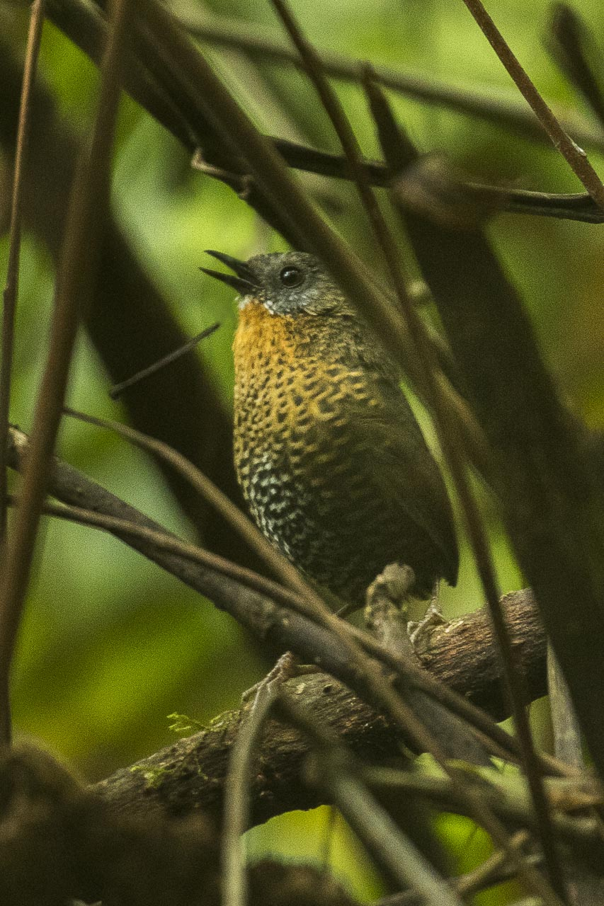 Rufous-fronted Wren-Babbler - Eaglenest - India_FJ0A9940